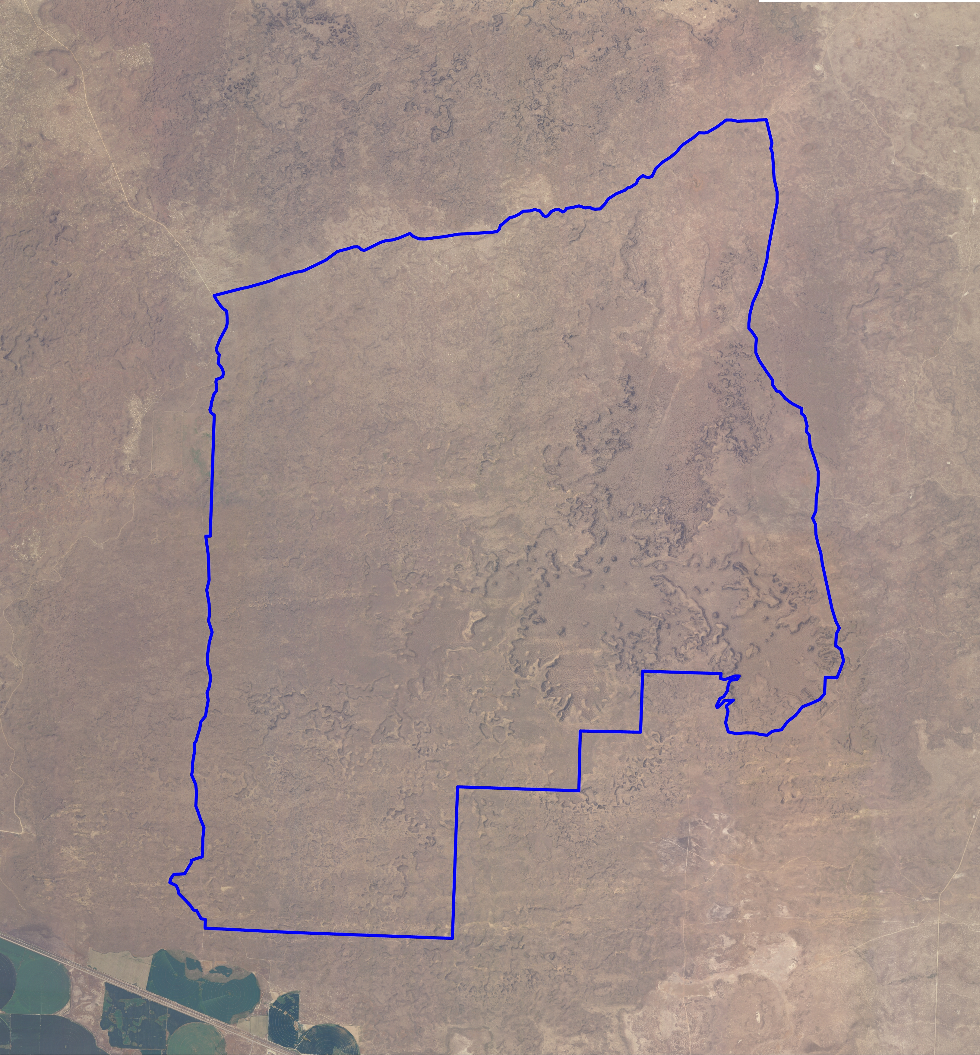 Map of Shale Butte Wilderness Study Area, Lincoln County, Idaho. The boundary (blue) is from a publicly available shape file downloaded from the Bureau of Land Management. The air photo is a mosaic of publicly available NAIP orthophos dated 2004. The road in the lower left is Idaho Route 24. The scale is 4 m/pixel (13 km wide).